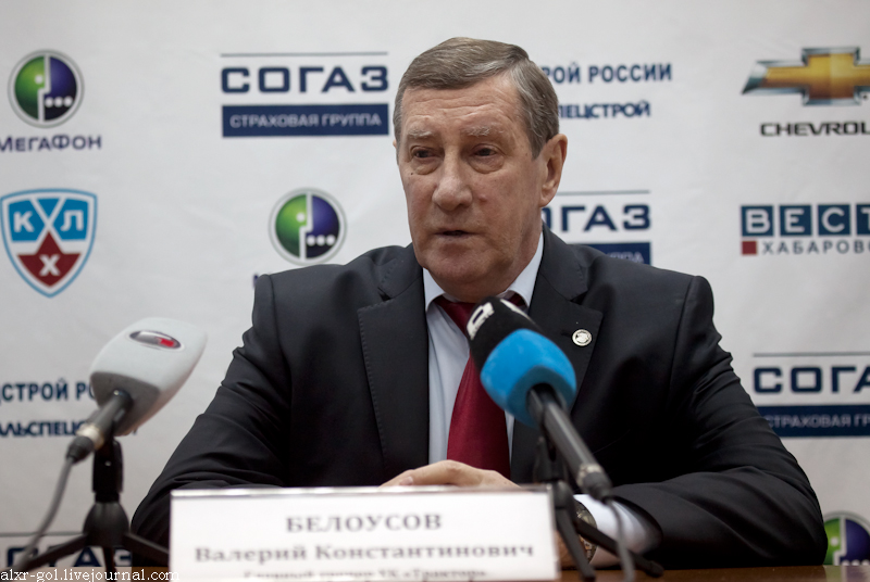 Traktor Chelyabinsk head coach Valeri Belousov after the KHL-game against Amur Khabarovsk on January 28, 2012 (Traktor won 3-2).